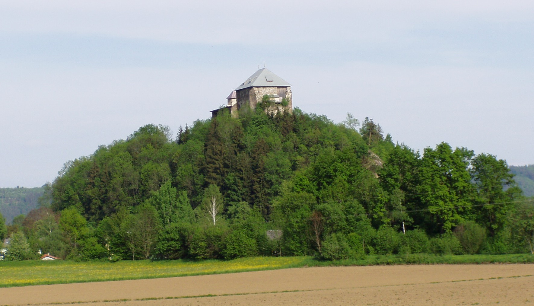 Haimburg in Haimburg, Carinthia